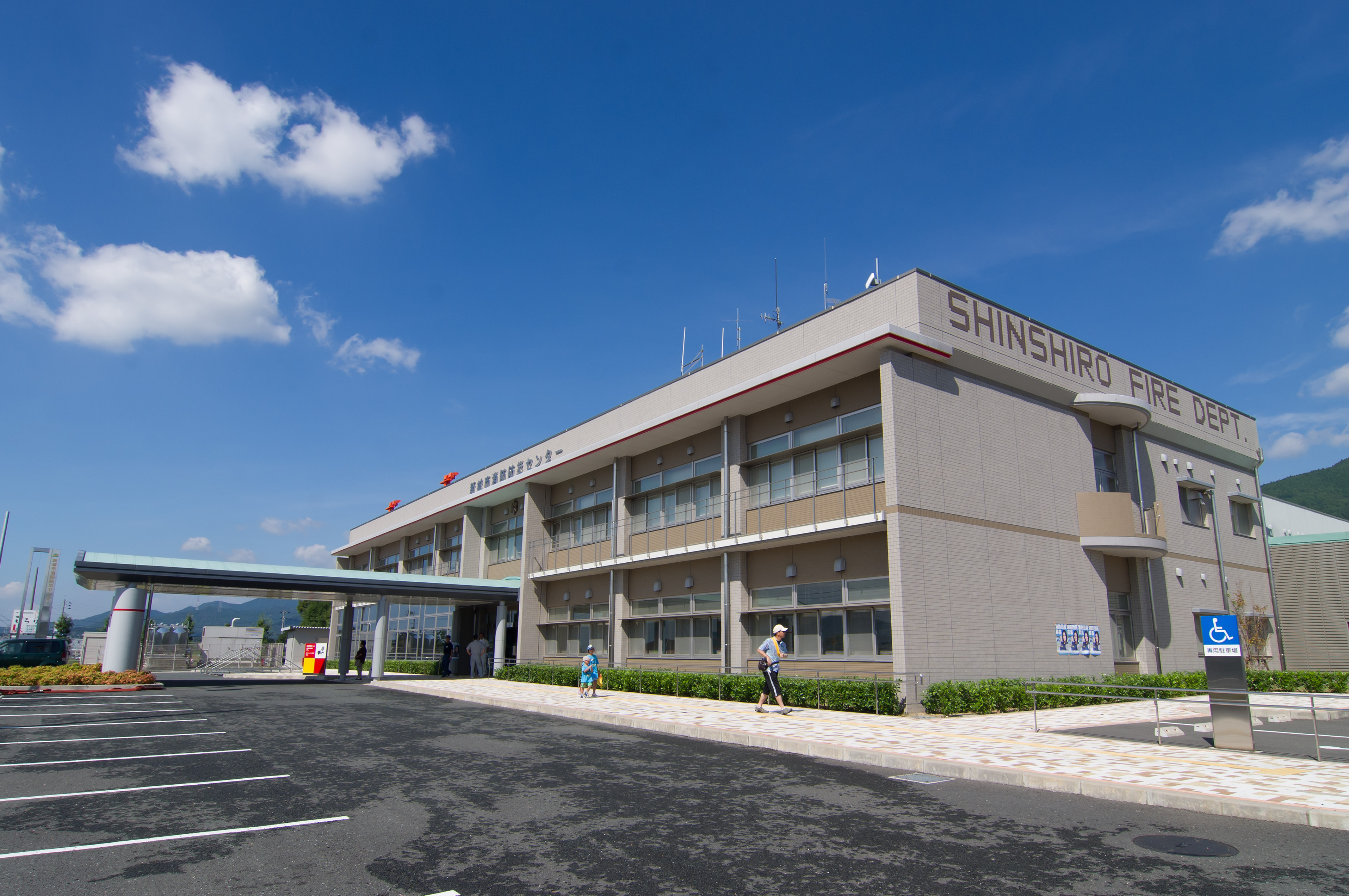 Shinshiro City Fire Department (Fire and Disaster Prevention Center) which was built in 2008.